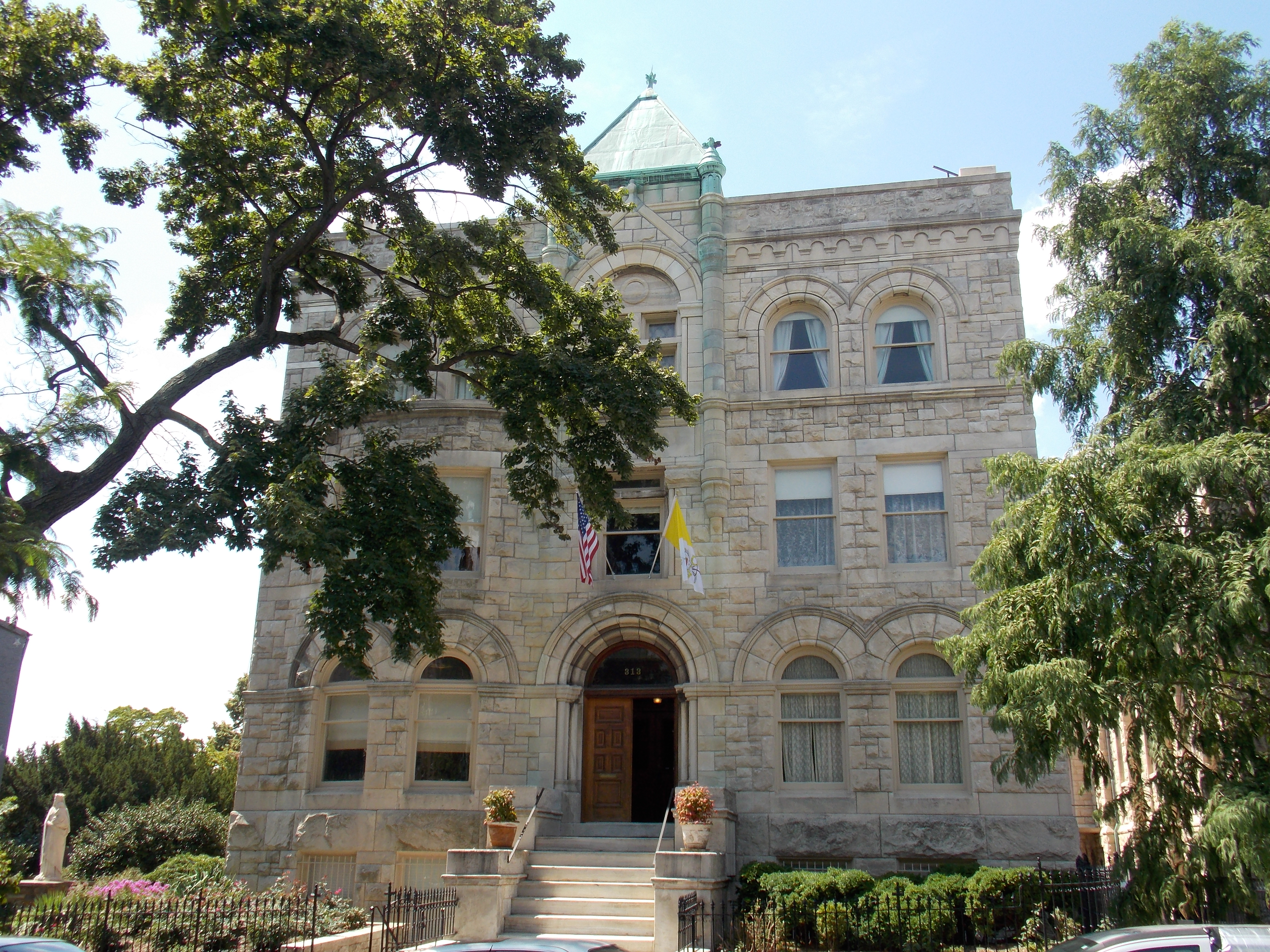 The rectory at St. Peter's Catholic Church on Capitol Hill in Washington, D.C.